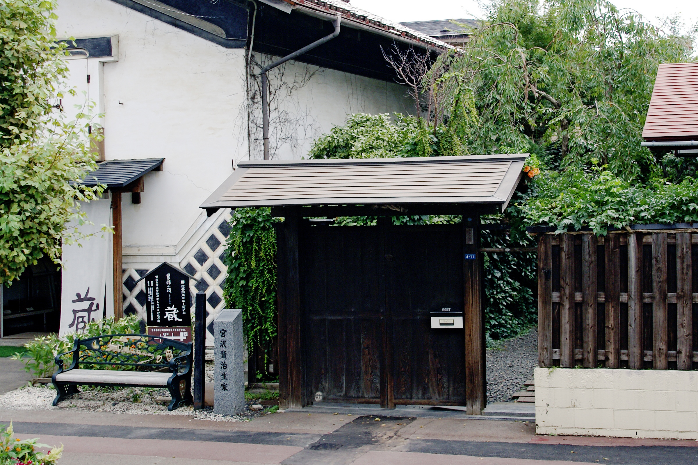 Kenji Miyazawa's Birthplace in Hanamaki, Iwate prefecture, Japan